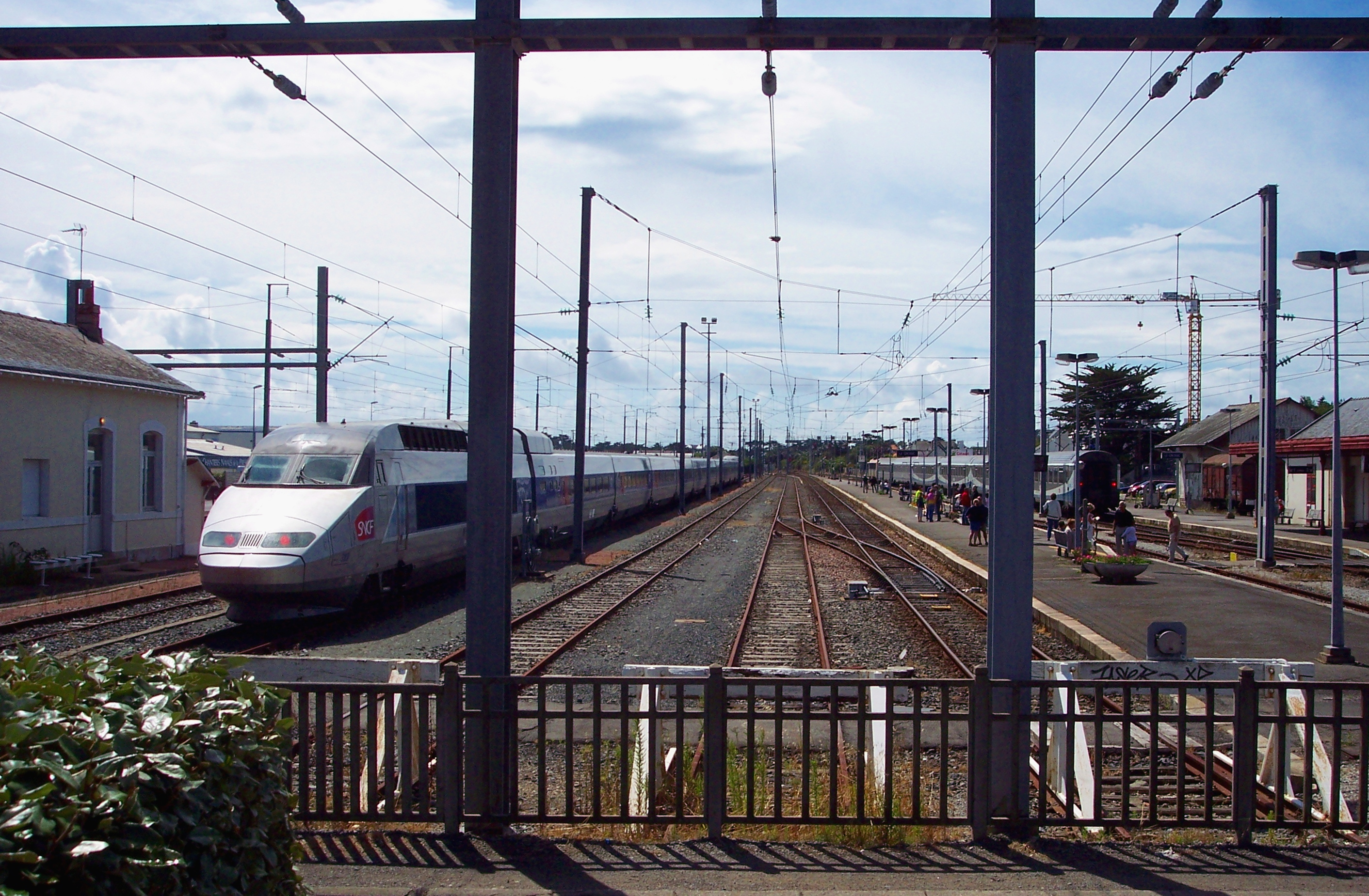 The railway station in Le Croisic, France, in 2007, with TGV and Interloire trains.